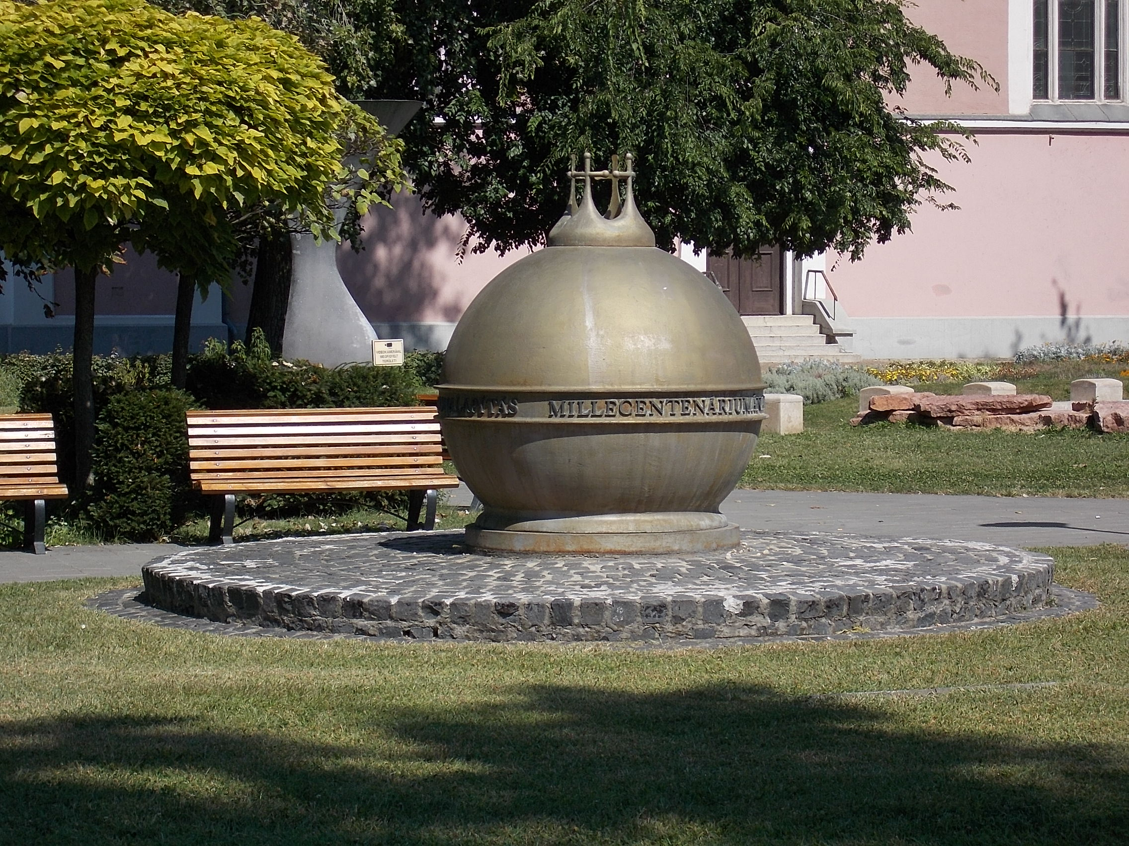 Millecentenary memorial. - Szent Imre Square, Budapest District XXI., Budapest.